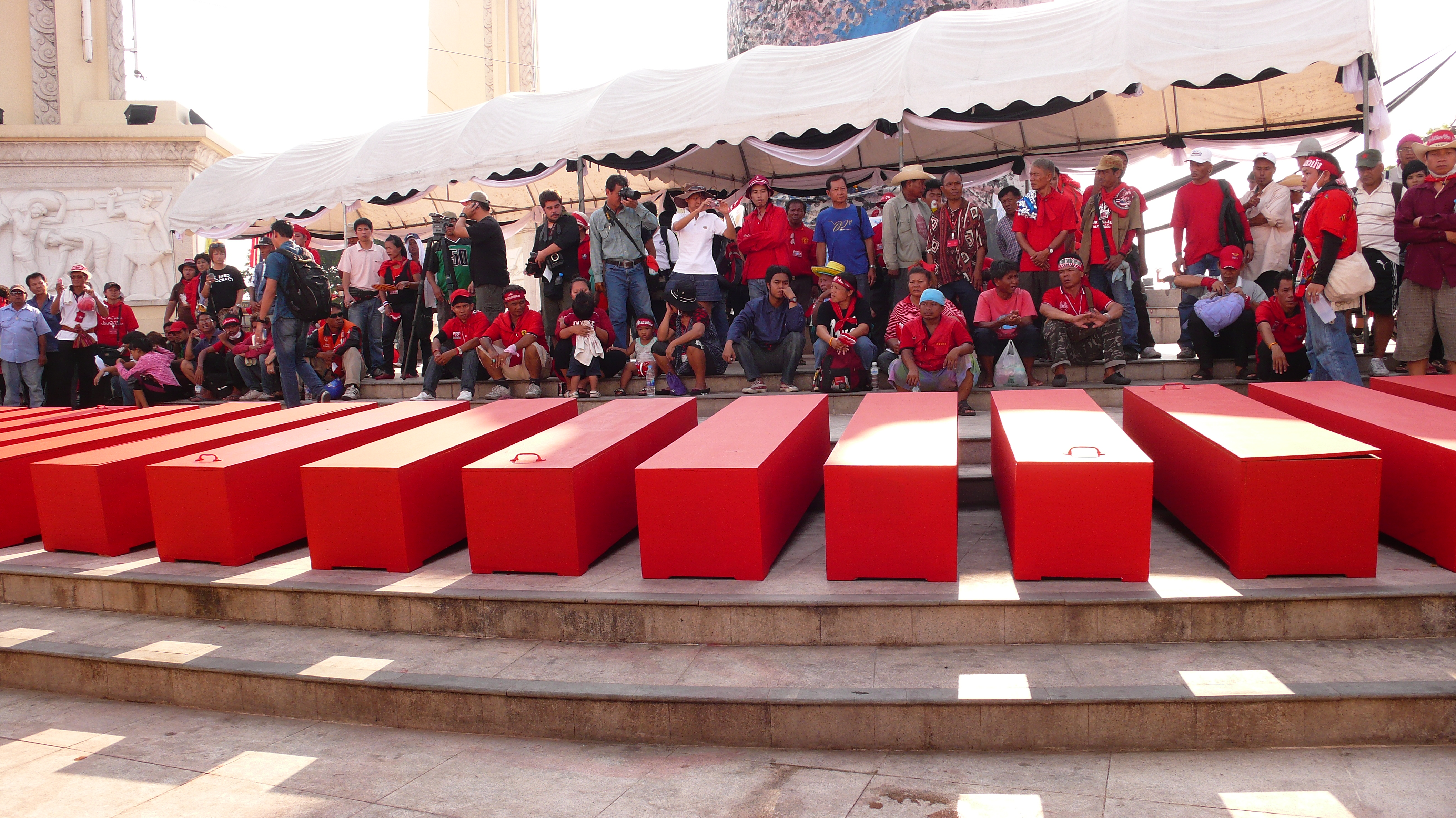 Redshirts at Democracy monument. First victims (the coffins are just symbolic), nobody inside.